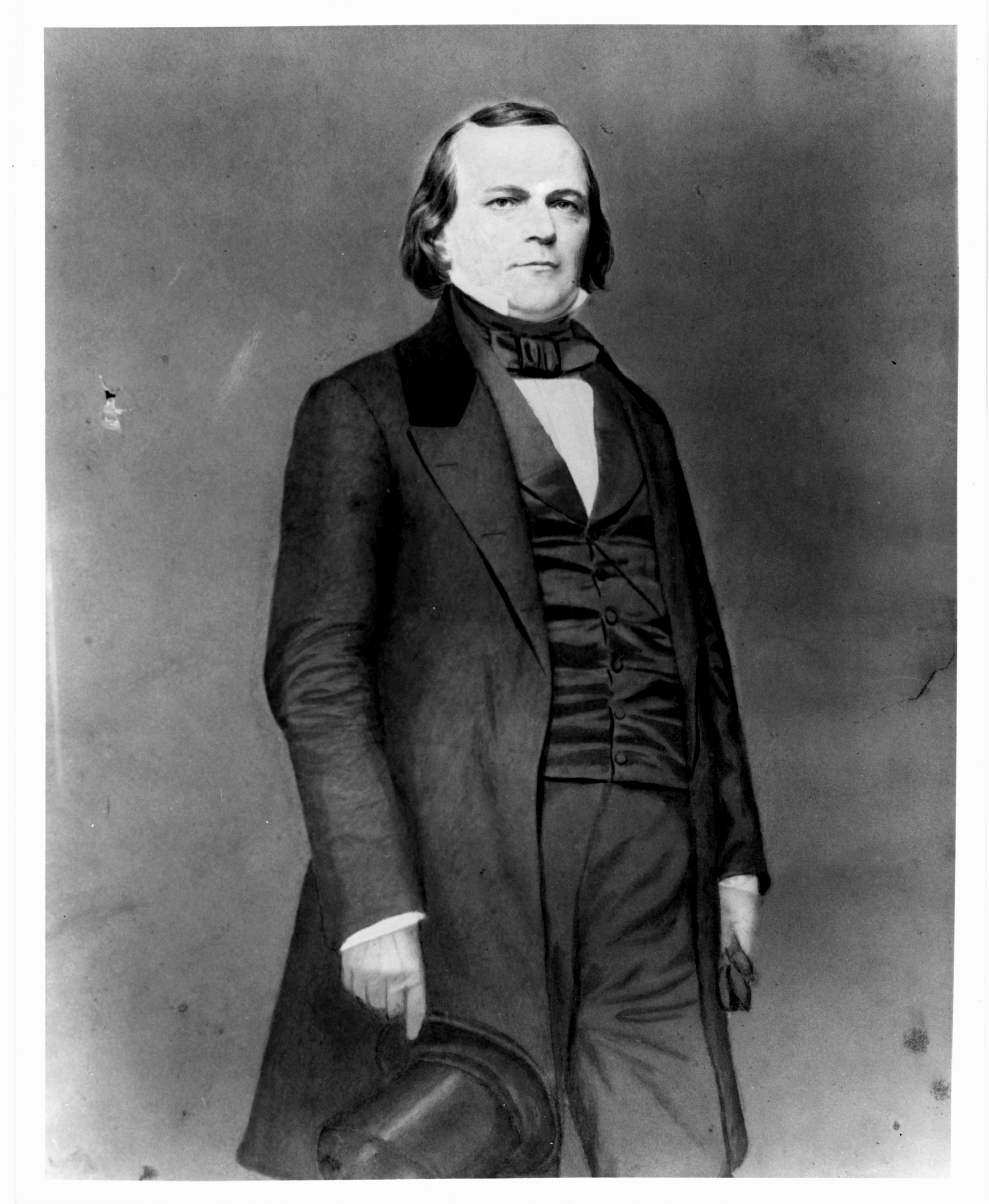 Collection: Brady (Mathew) Portraits Call number: PI/COL/1983.0026 System ID: 105539. Link to the catalog John J. McRae portrait. Please see our profile page for information on ordering. Scanned as tiff in 2011/04/19 by MDAH. Credit: Courtesy of the Mississippi Department of Archives and History